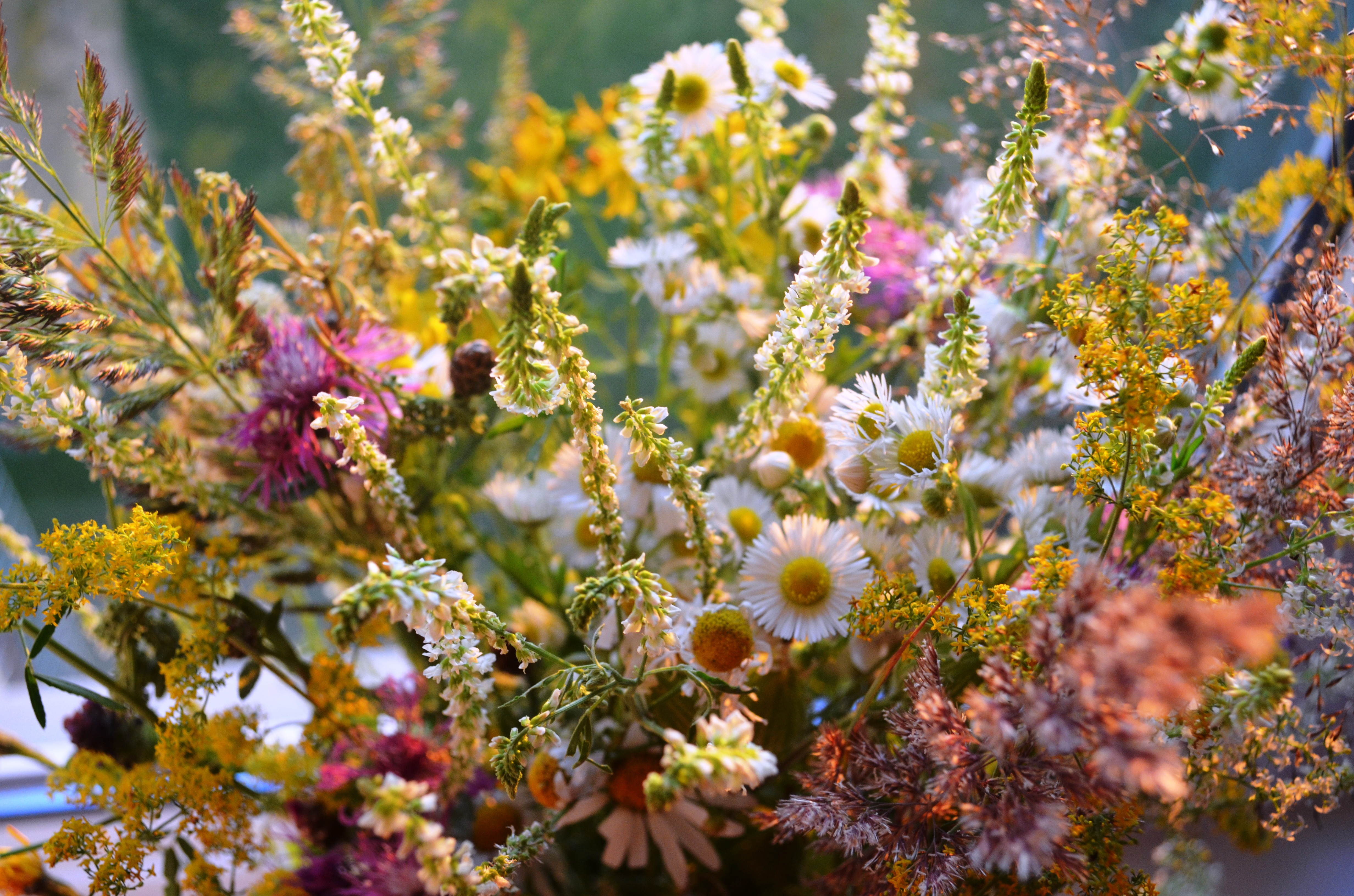 Wildflowers